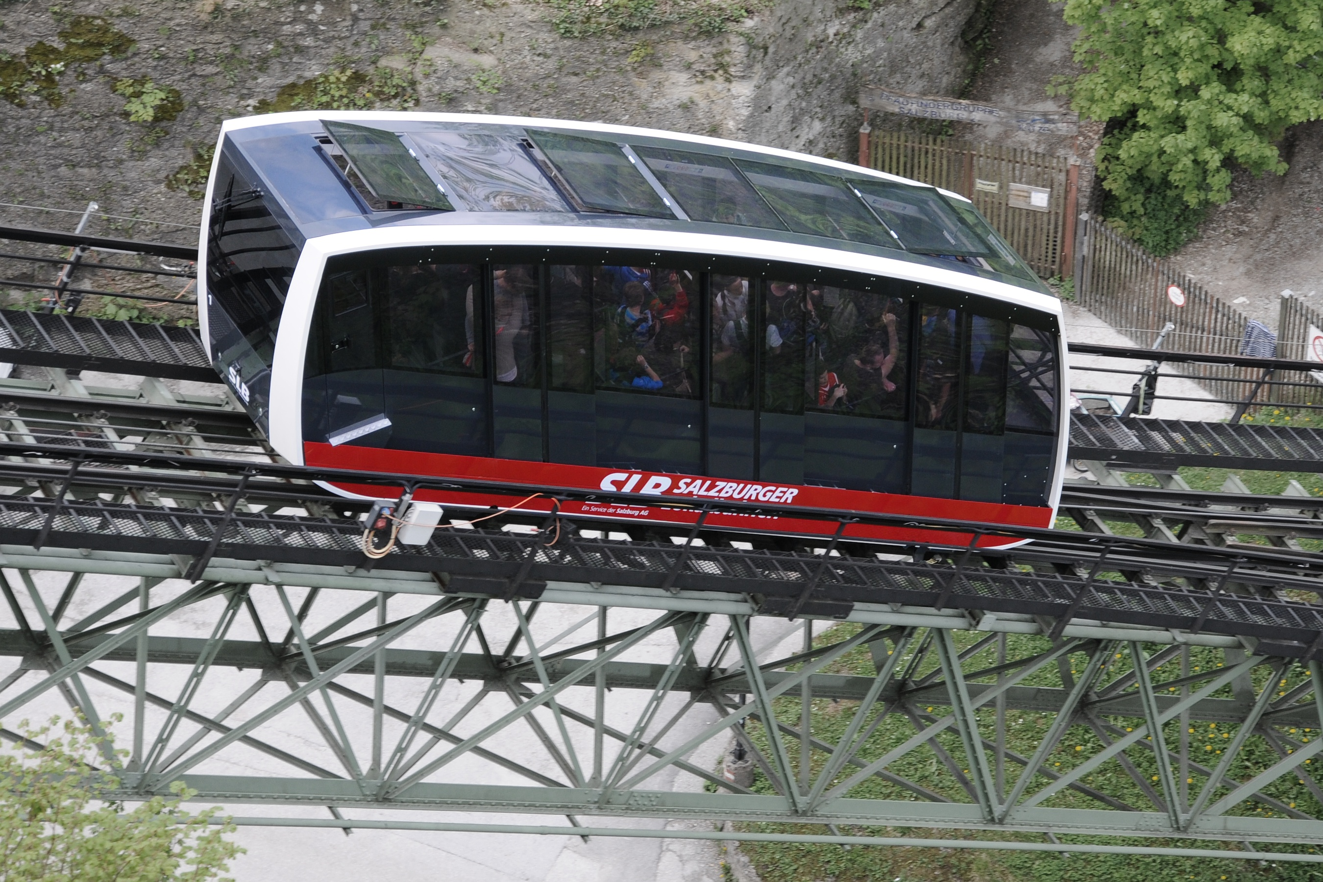 Carriage of the funicular railway to Hohensalzburg Castle, model 2011